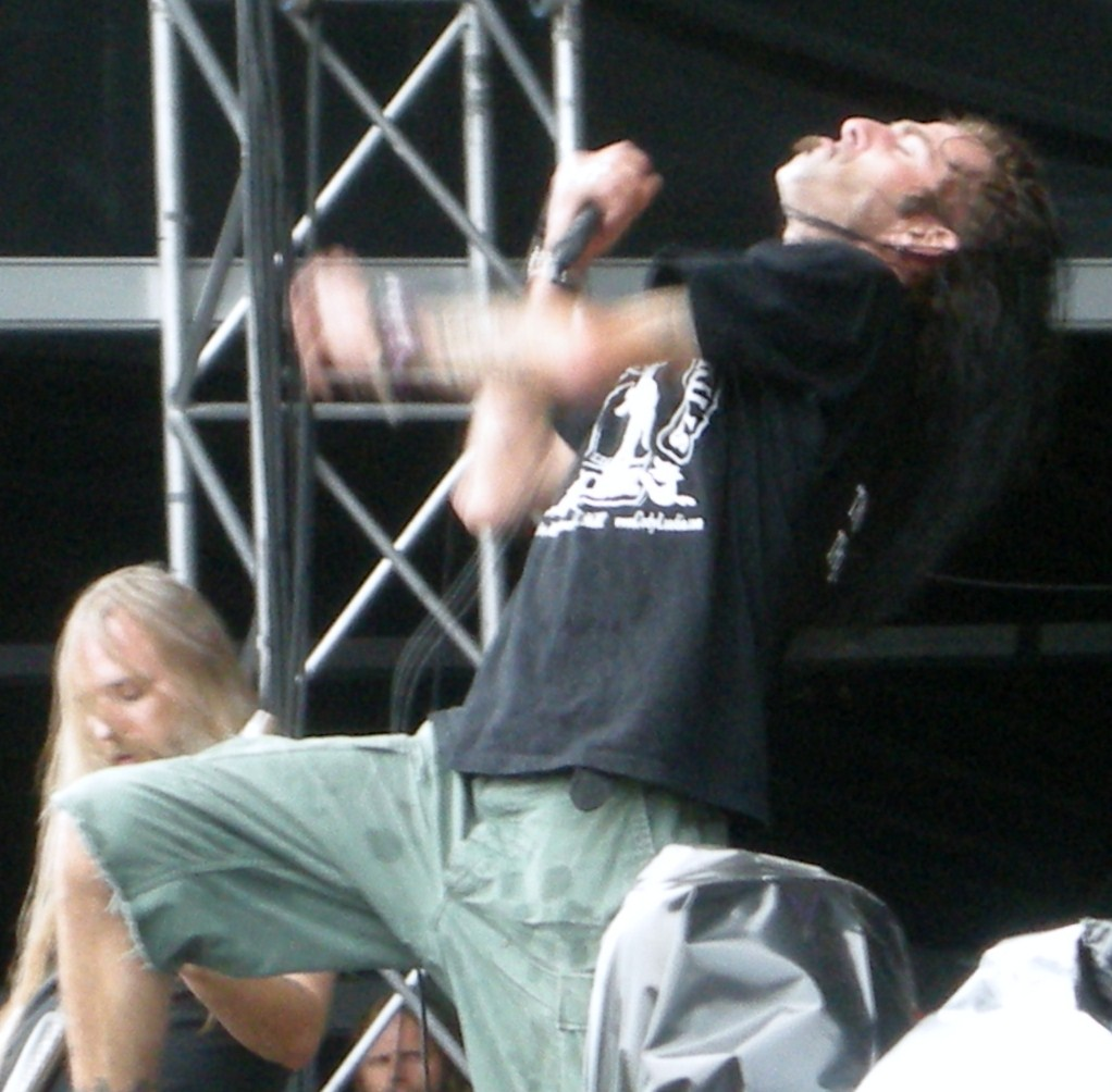 Randy Blythe, Lamb of God at Sonisphere Sweden 2009